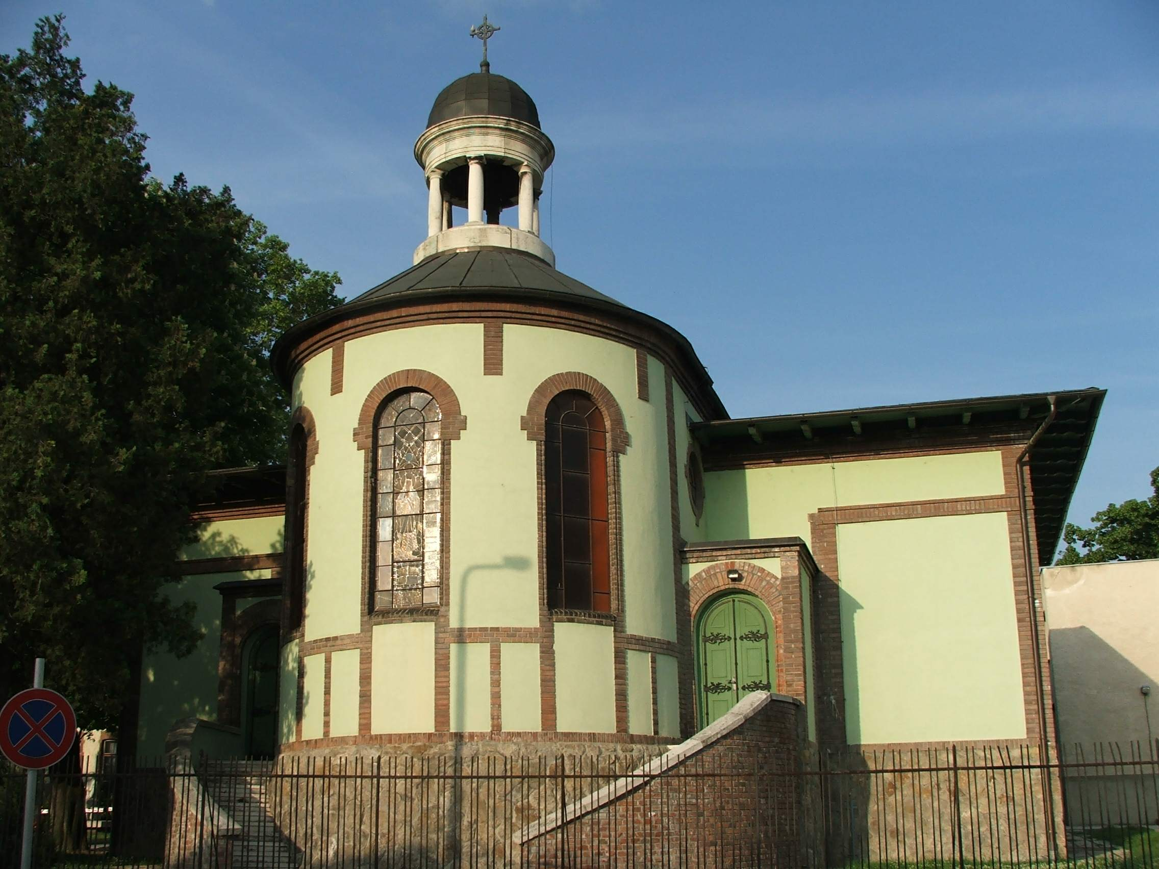 Chapel of the Vaszary Kolos Hospital